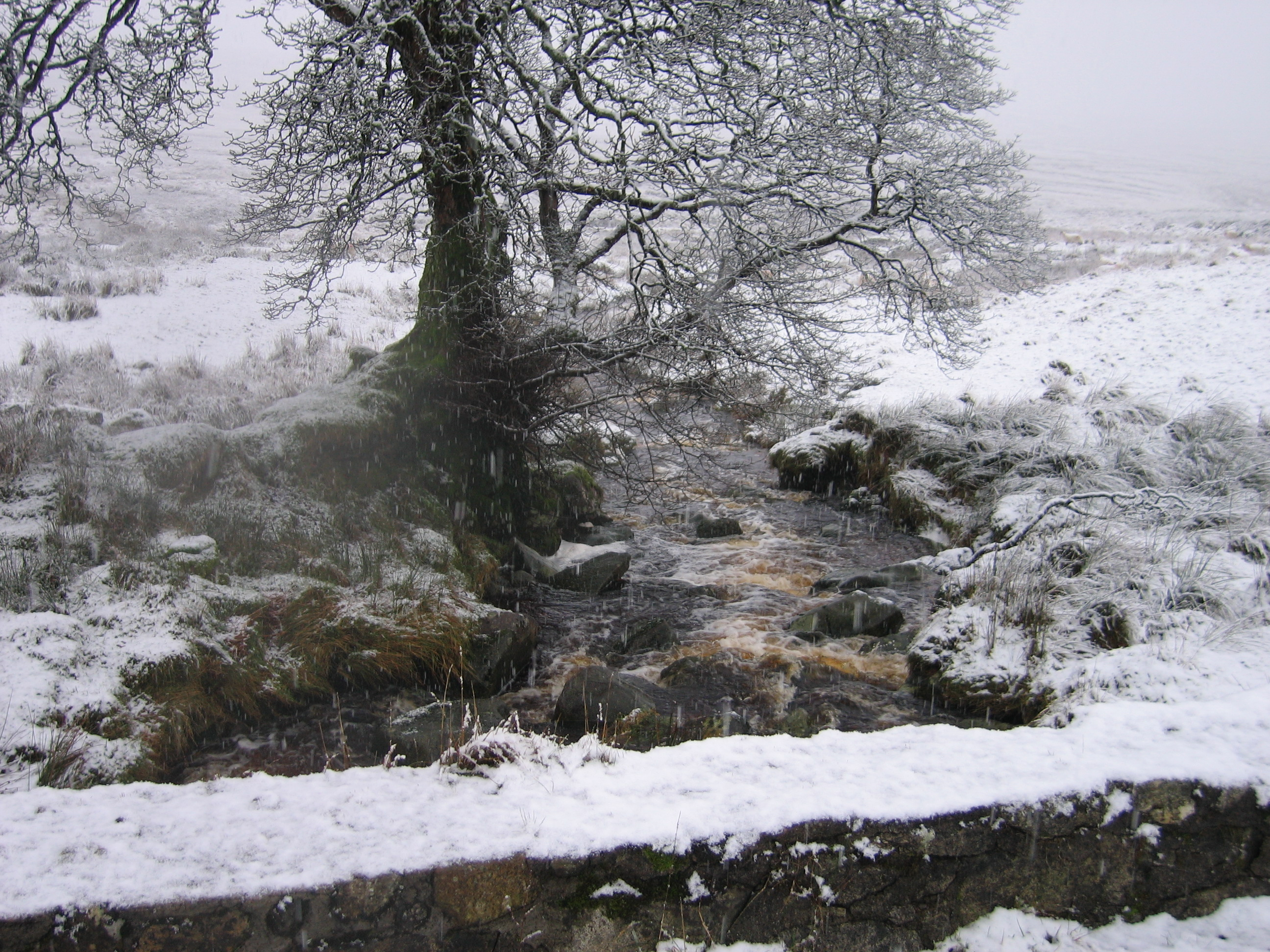 The River Liffey in West Wicklow, northwest of Sally Gap, Ireland.